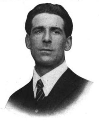 Photo of Actor Lawson Butt (1880-1956)